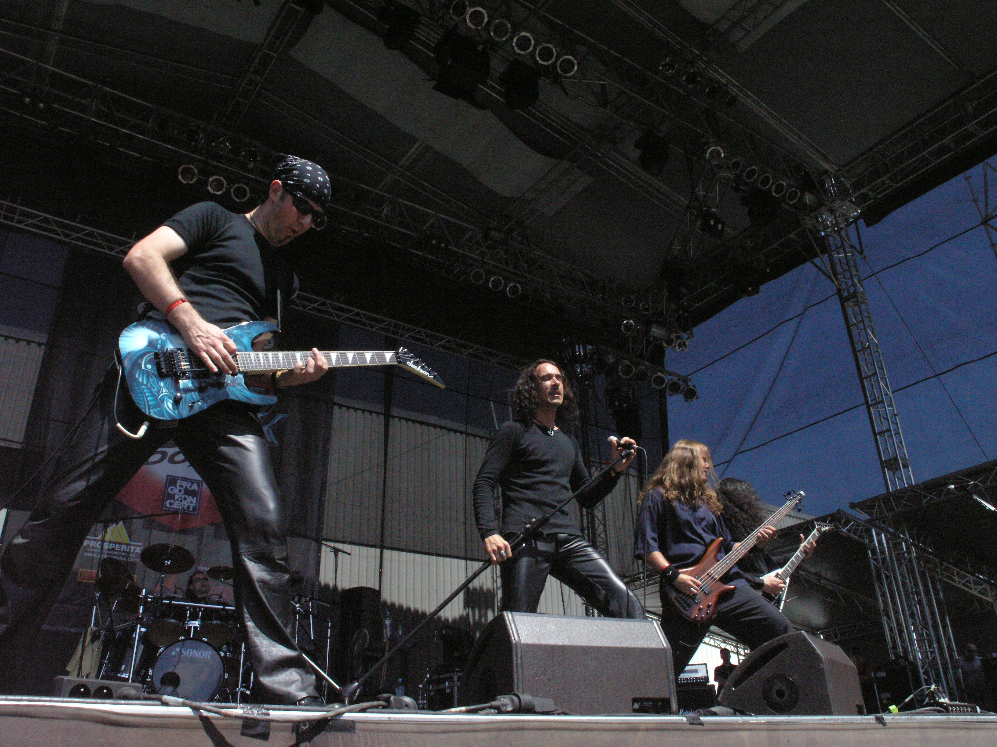 Music band Black Majesty during Masters of Rock 2007 festival